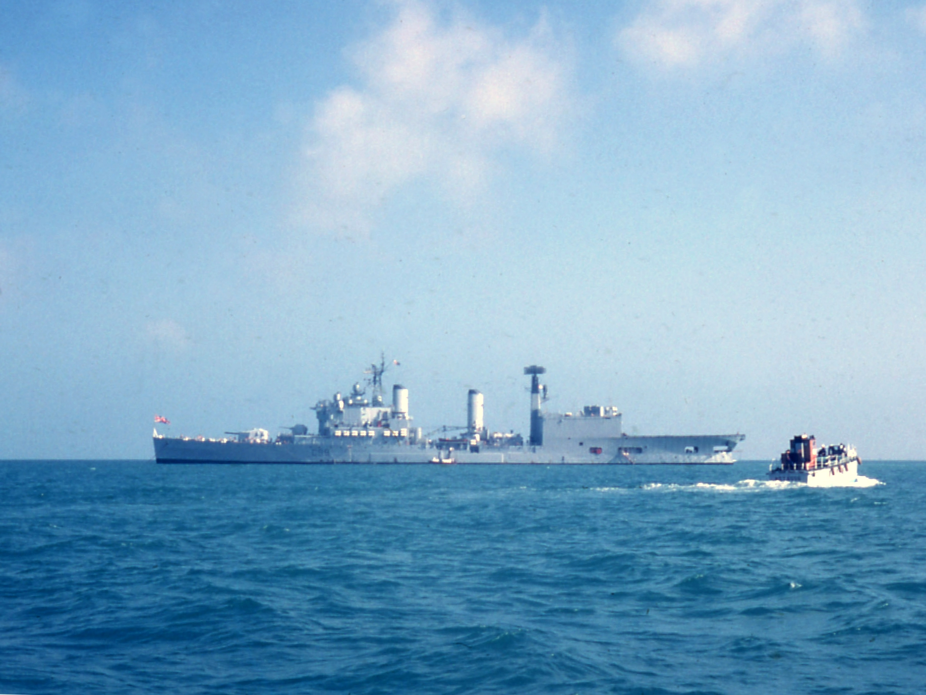 The Royal Navy cruiser HMS Blake (C99) at anchor in Key West Harbor, Florida (USA), in November 1978.